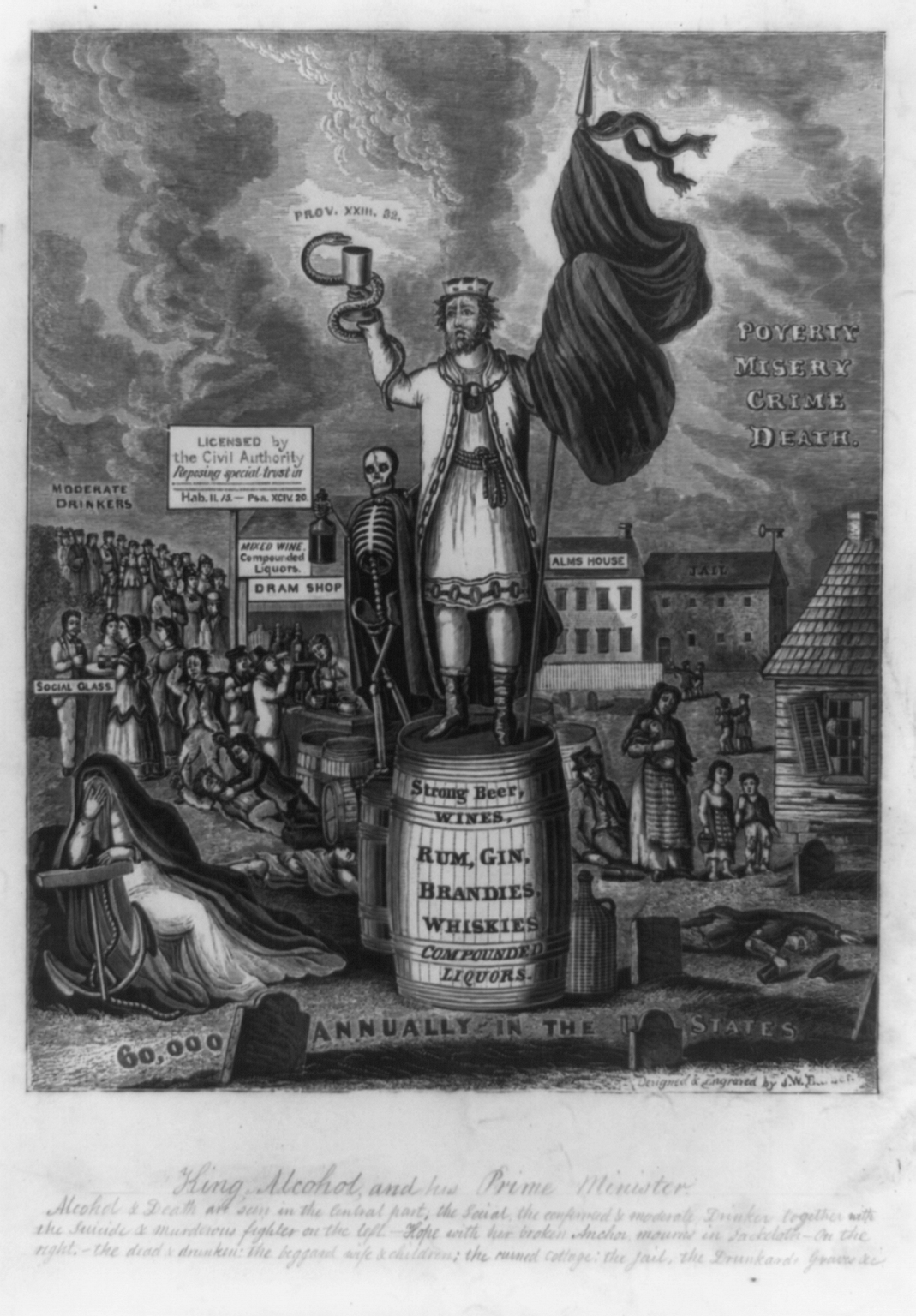 Propaganda image of alcoholism